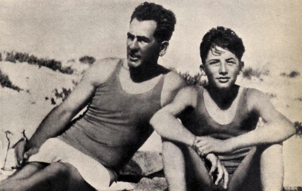 Gregory Peck with his father, from Photoplay (1945)